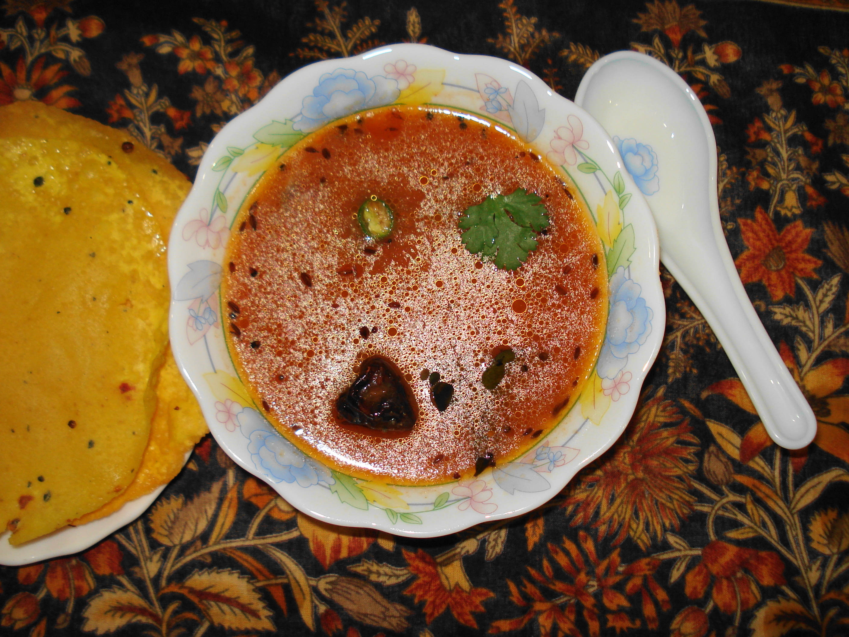 Rasam